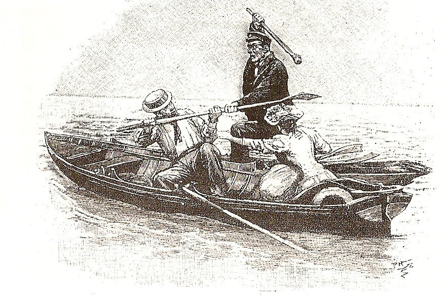 Illustration of "The Adventure of the Cardboard Box", which appeared in The Strand Magazine in January, 1893. The illustration was published with no caption.